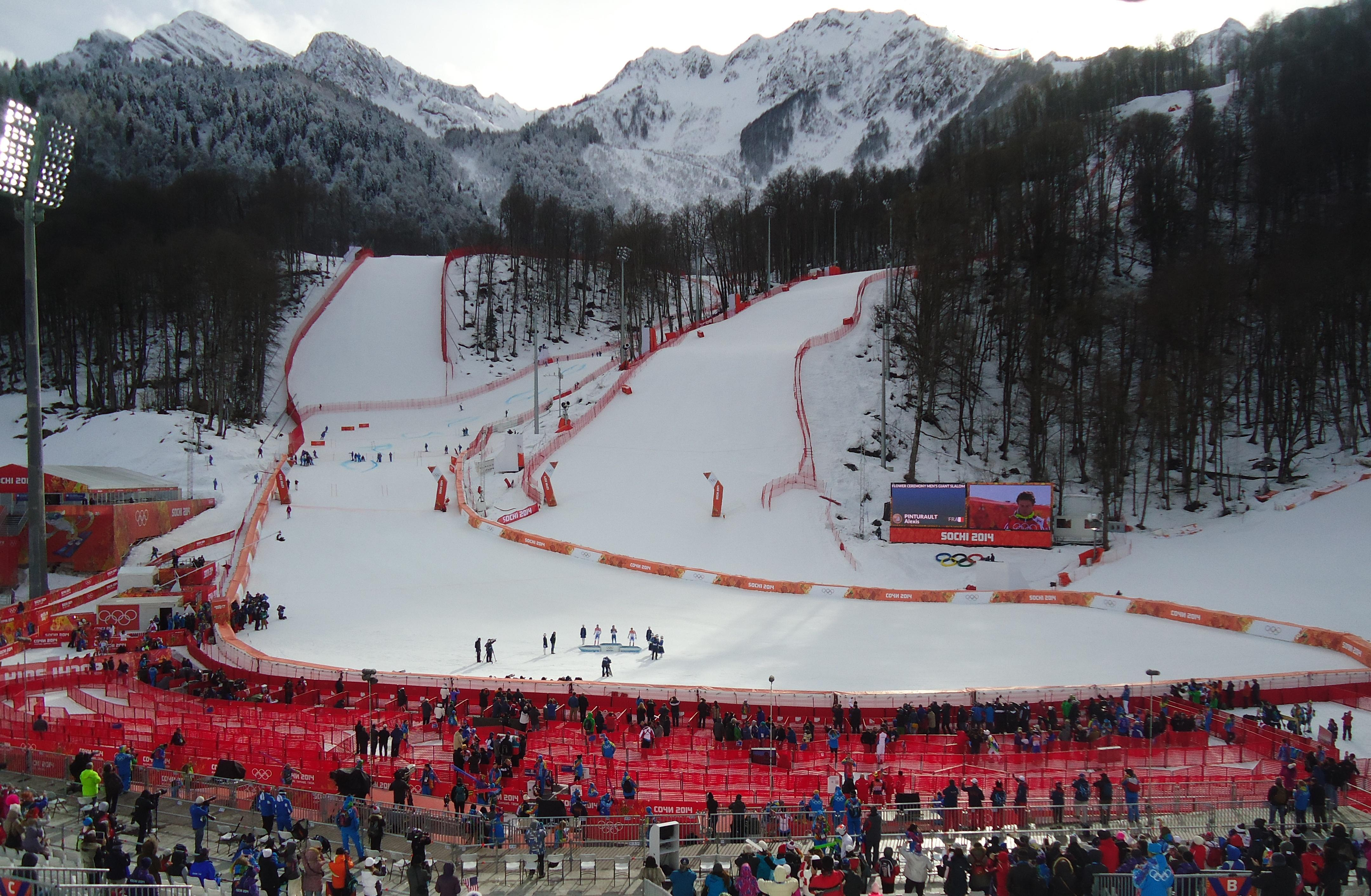 Flower ceremony of winners awards in men's giant slalom in a finish area of the Rosa Khutor alpine ski resort. The twenty second winter Olympic Games in Sochi. 19-th February 2014.